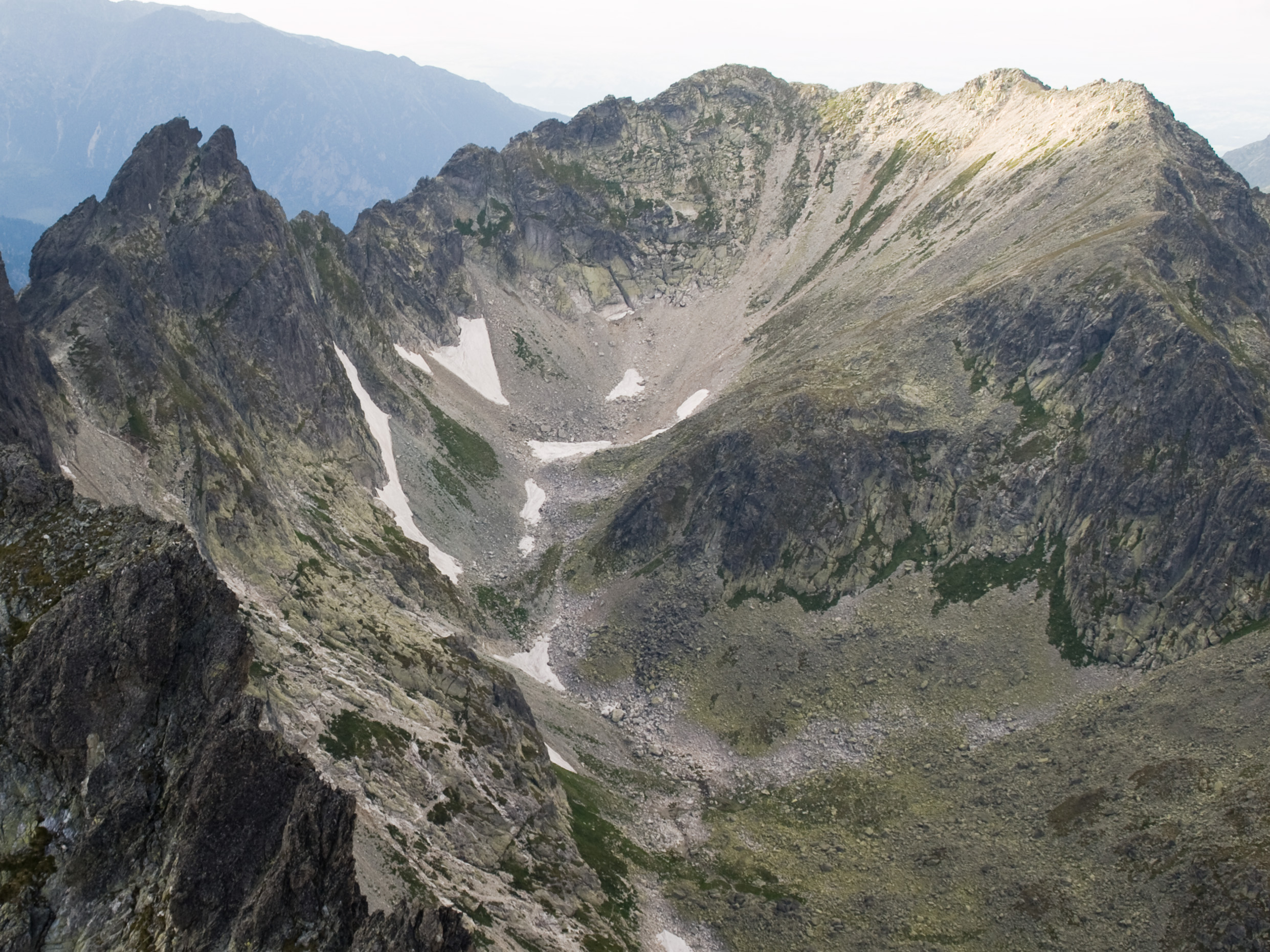 Divá veža, Divé sedlo and Svišťový štít above Divá kotlina as seen from the lowest summit of Bradavica